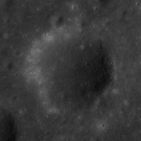 Camelot crater, Taurus–Littrow valley, on the moon. Sun elevation 46 deg., spacecraft altitude 112 km.